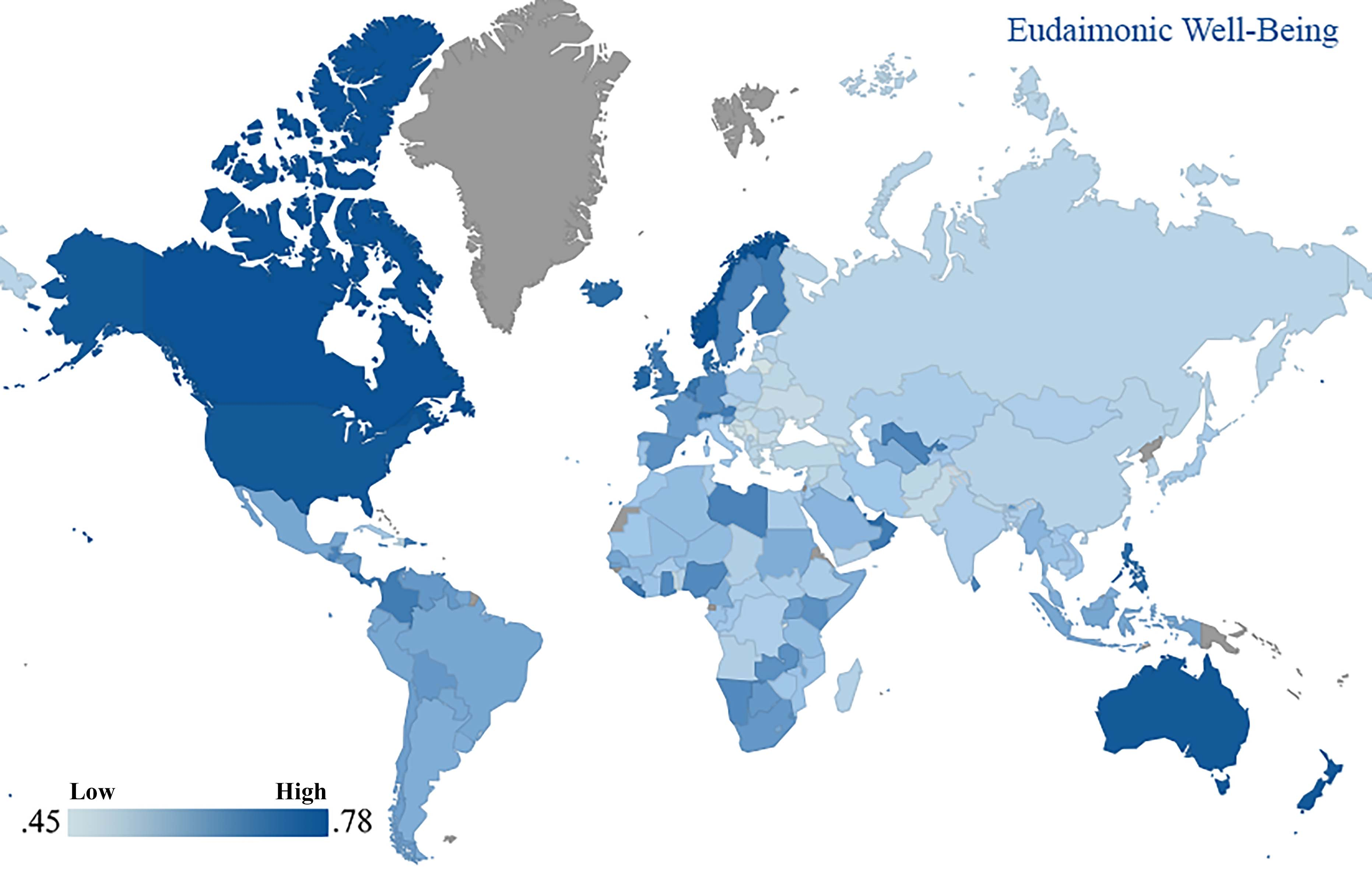 Eudaimonic Well-being in 166 nations. Based on Gallup World Poll data. Reference: Joshanloo, M. (2018). Optimal human functioning around the world: A new index of eudaimonic well‐being in 166 nations. British Journal of Psychology.